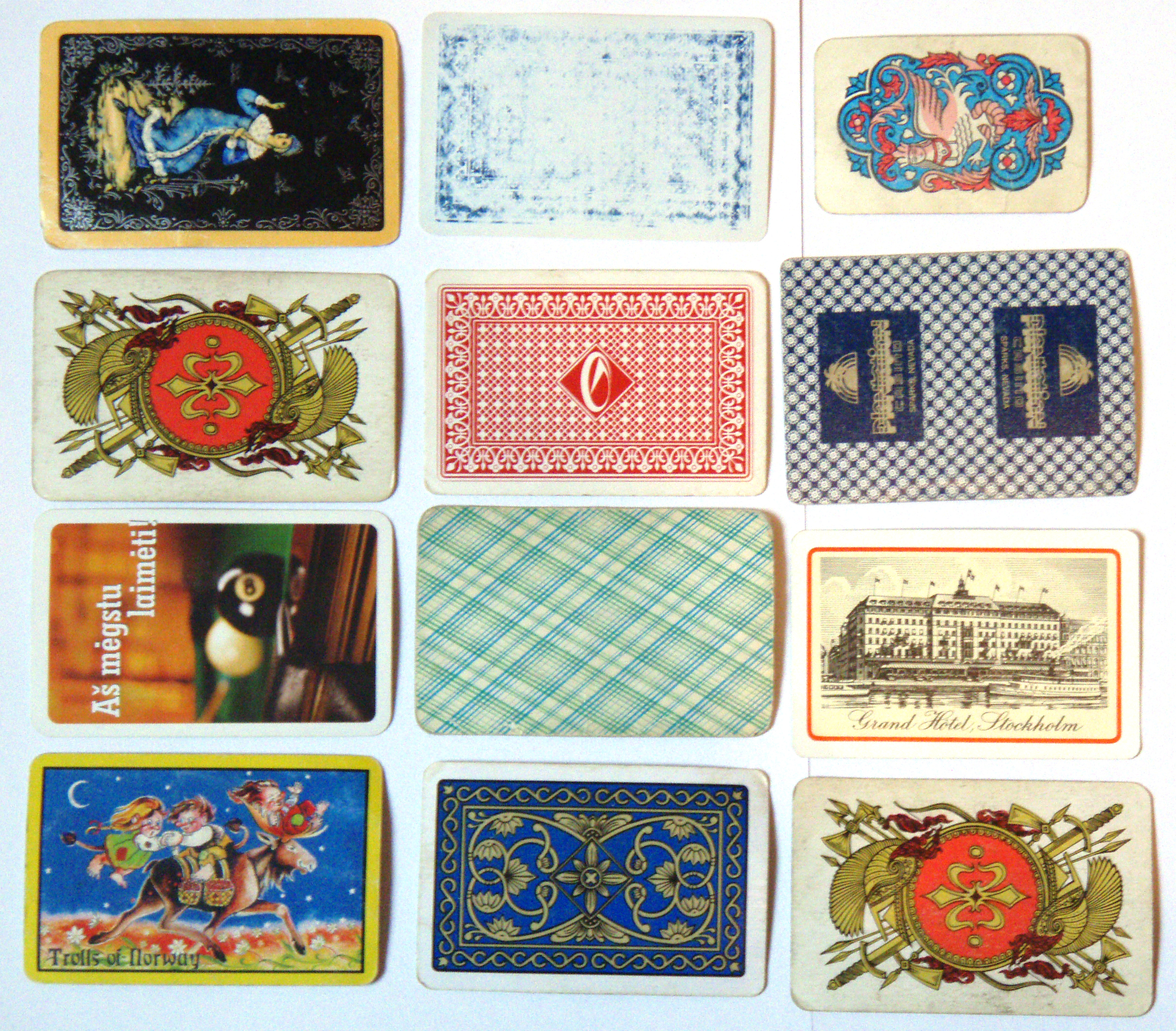 12 different card back designs